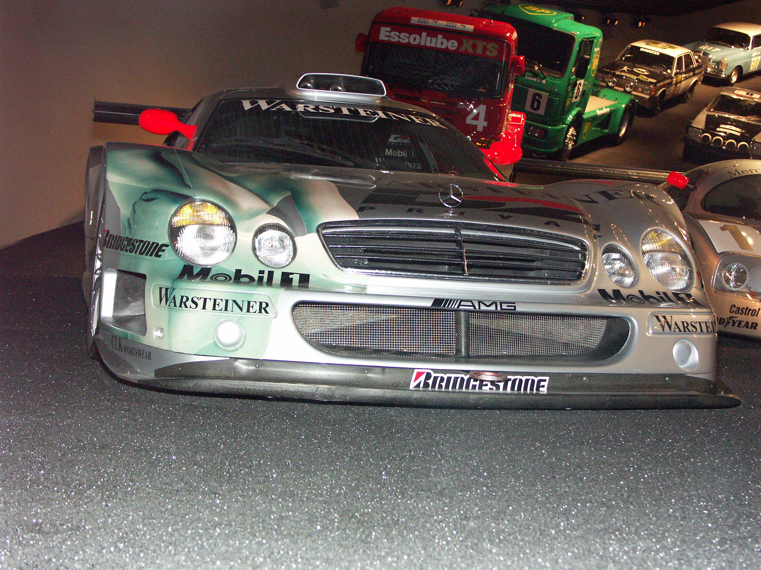 Racing car from Mercedes in the Museum in Stuttgart